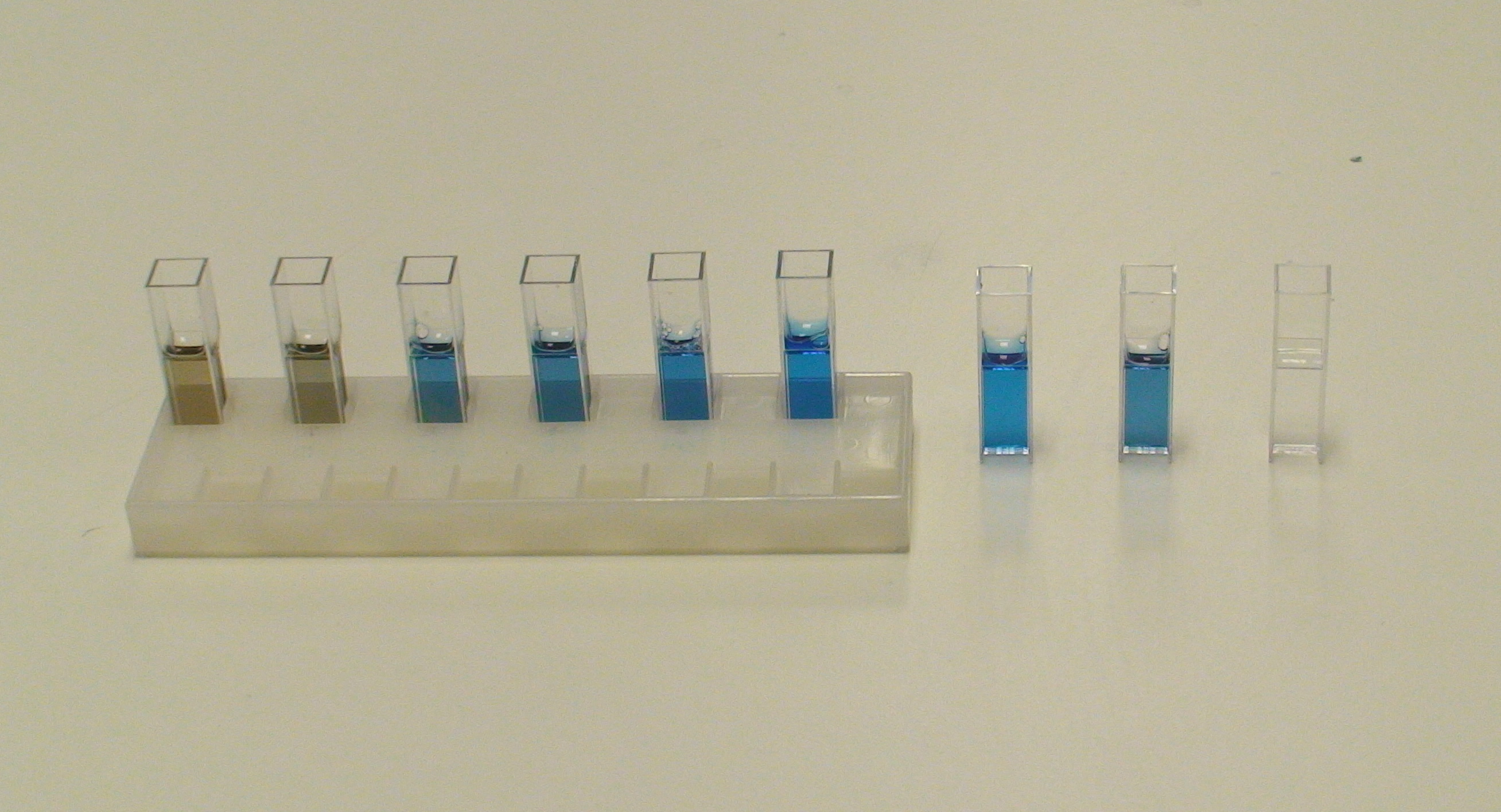 Isn't science pretty. Often we use dyes to stain tissues or show up the presence of substances in a fluid. This one is looking at protein - the more protein the bluer the colour.